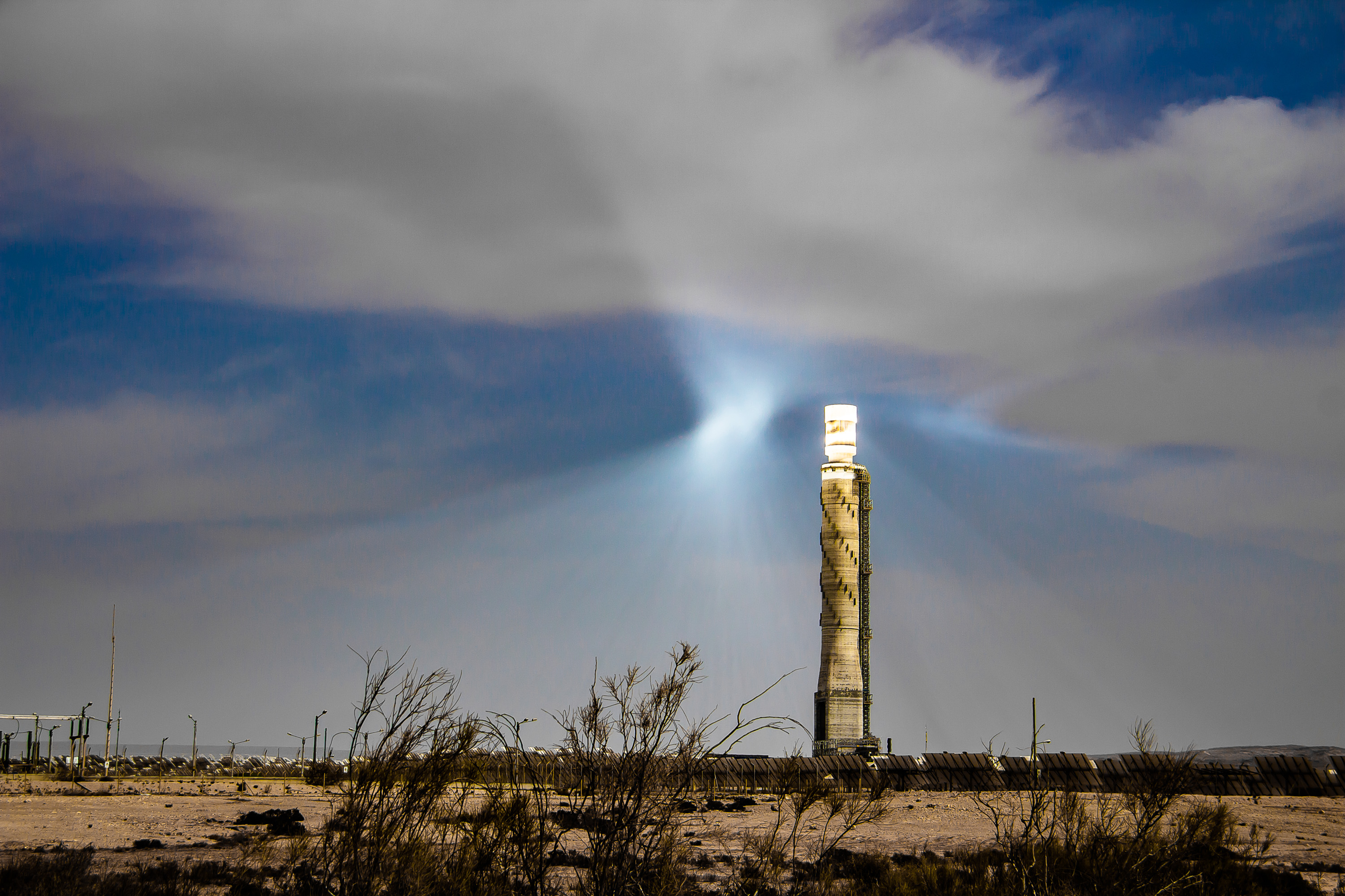 Ashalim solar power plant on Negev desert, Israel.